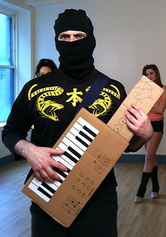 This is a picture of the two members of comedy band Ninja Sex Party, along with several background dancers from The Spangles, during the filming of their video "Next To You". The image is cut to focus on Brian Wecht.